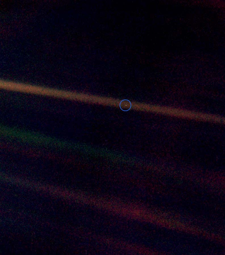 This is the "Pale Blue Dot" photograph of the Earth taken by the Voyager 1 spacecraft on February 14, 1990. The Earth is the relatively bright speck of light about halfway across the uppermost sunbeam. The original version of this image can be obtained from NASA. The original caption reads as follows: This narrow-angle color image of the Earth, dubbed 'Pale Blue Dot', is a part of the first ever 'portrait' of the solar system taken by Voyager 1. The spacecraft acquired a total of 60 frames for a mosaic of the solar system from a distance of more than 4 billion miles from Earth and about 32 degrees above the ecliptic. From Voyager's great distance Earth is a mere point of light, less than the size of a picture element even in the narrow-angle camera. Earth was a crescent only 0.12 pixel in size. Coincidentally, Earth lies right in the center of one of the scattered light rays resulting from taking the image so close to the sun. This blown-up image of the Earth was taken through three color filters -- violet, blue and green -- and recombined to produce the color image. The background features in the image are artifacts resulting from the magnification.